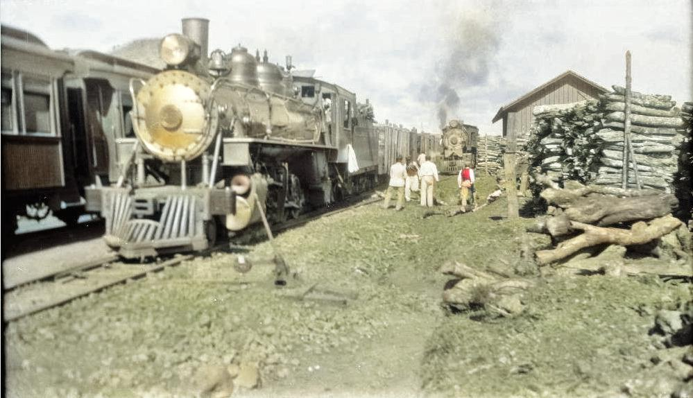 Colorized photo of another image that is already under public license.